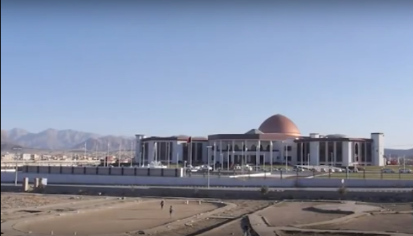 The new building of the Afghan Parliament in the grounds of the Darul Aman Palace